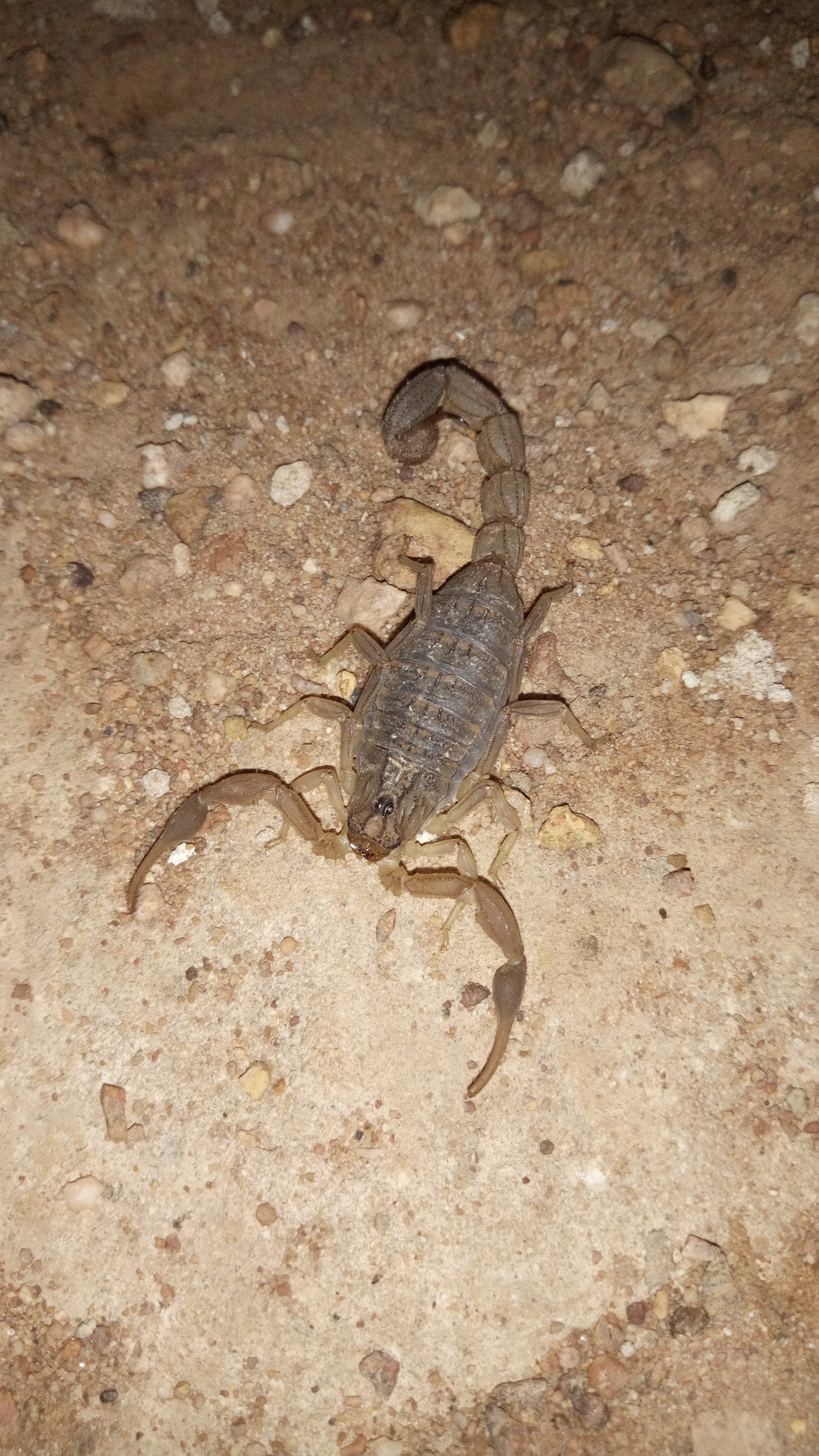 An individual of scorpion in the hunting area of the Pendjari National Park.